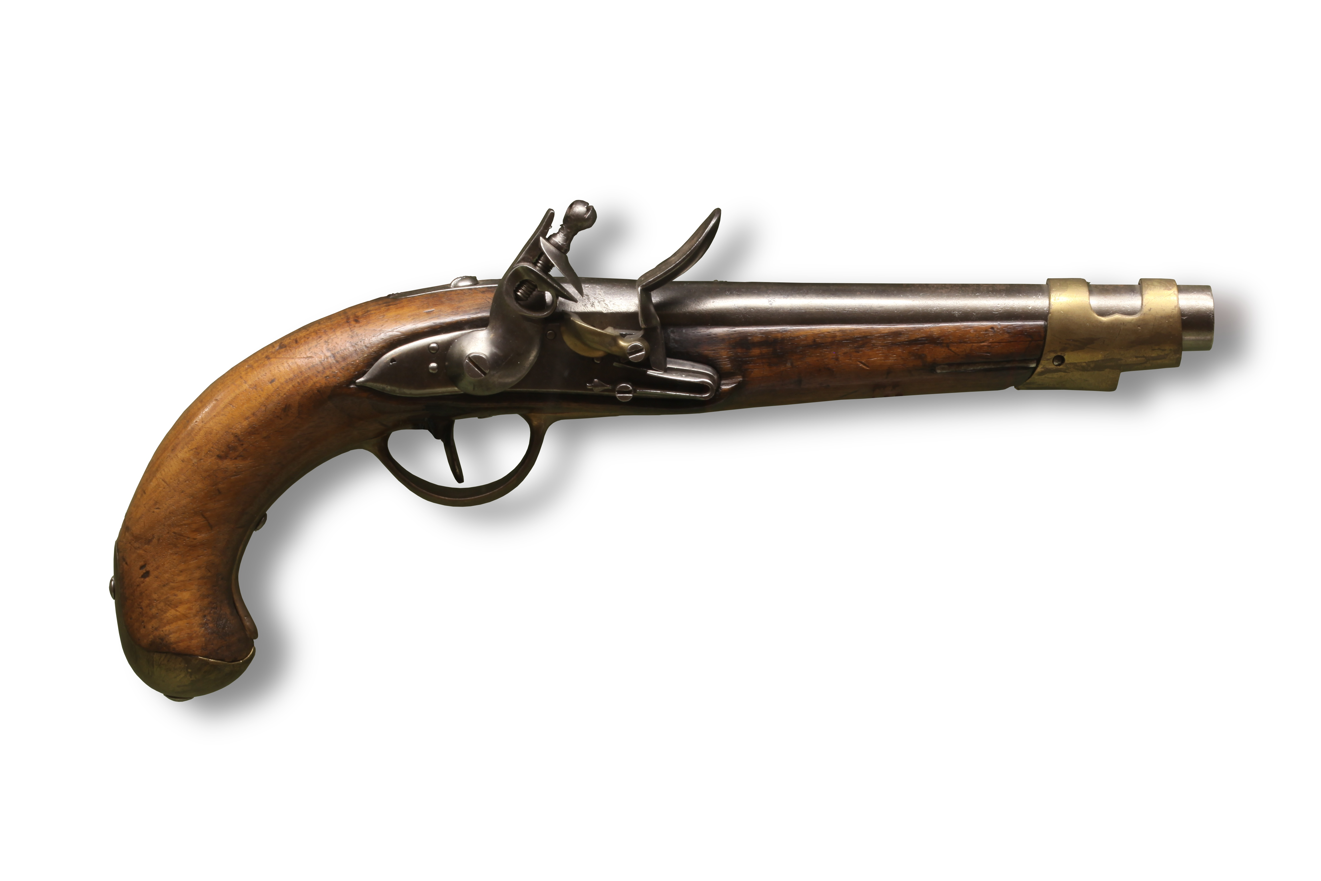 Silex pistol of the Revolutionary Wars, made by Ateliers Nationaux in France circa 1790-1795. On display at Morges military museum, access number MMV 1004693.